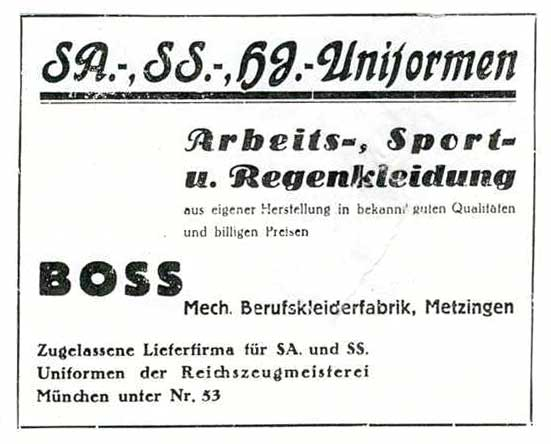 An advertisment for Nazi uniforms by Hugo Boss.